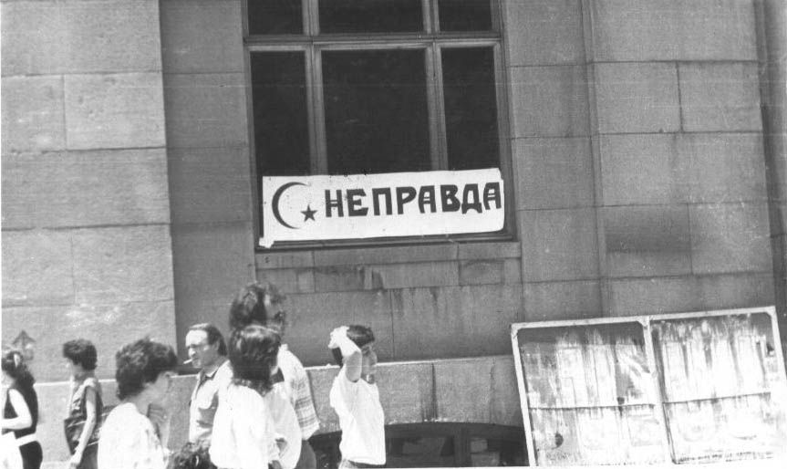 Yerevan demonstration on theater square. Summer-1988. A poster blaming soviet newspaper "Pravda" (rus. Truth) in not neutral POV. Says "Nepravda" (rus False).